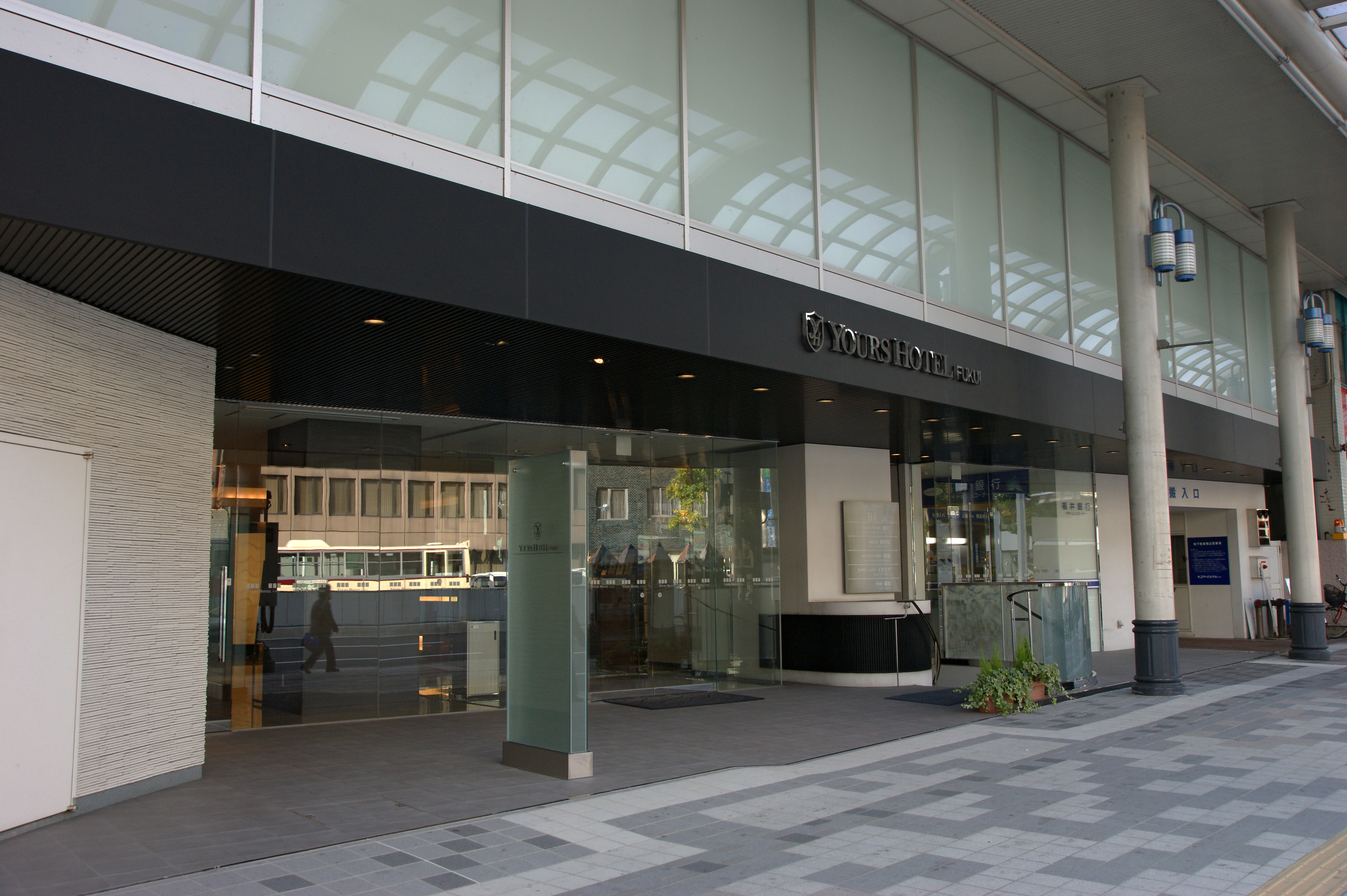 Yours Hotel Fukui, Fukui, Fukui prefecture, Japan